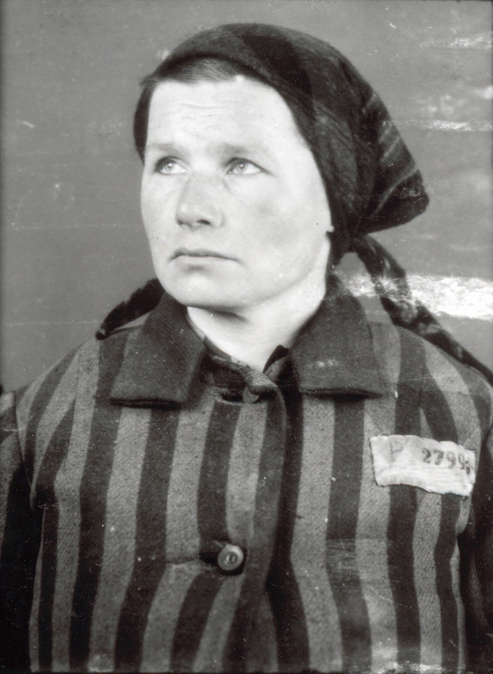 Maria Kotarba, prisoner of Nazi German concentration camps Auschwitz and Ravensbrück, the Righteous Among the Nations, Auschwitz 1943.